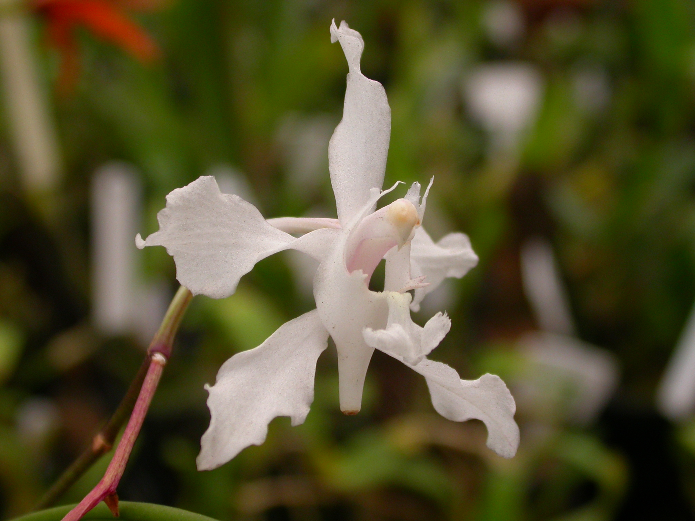 Papilionanthe vandarum